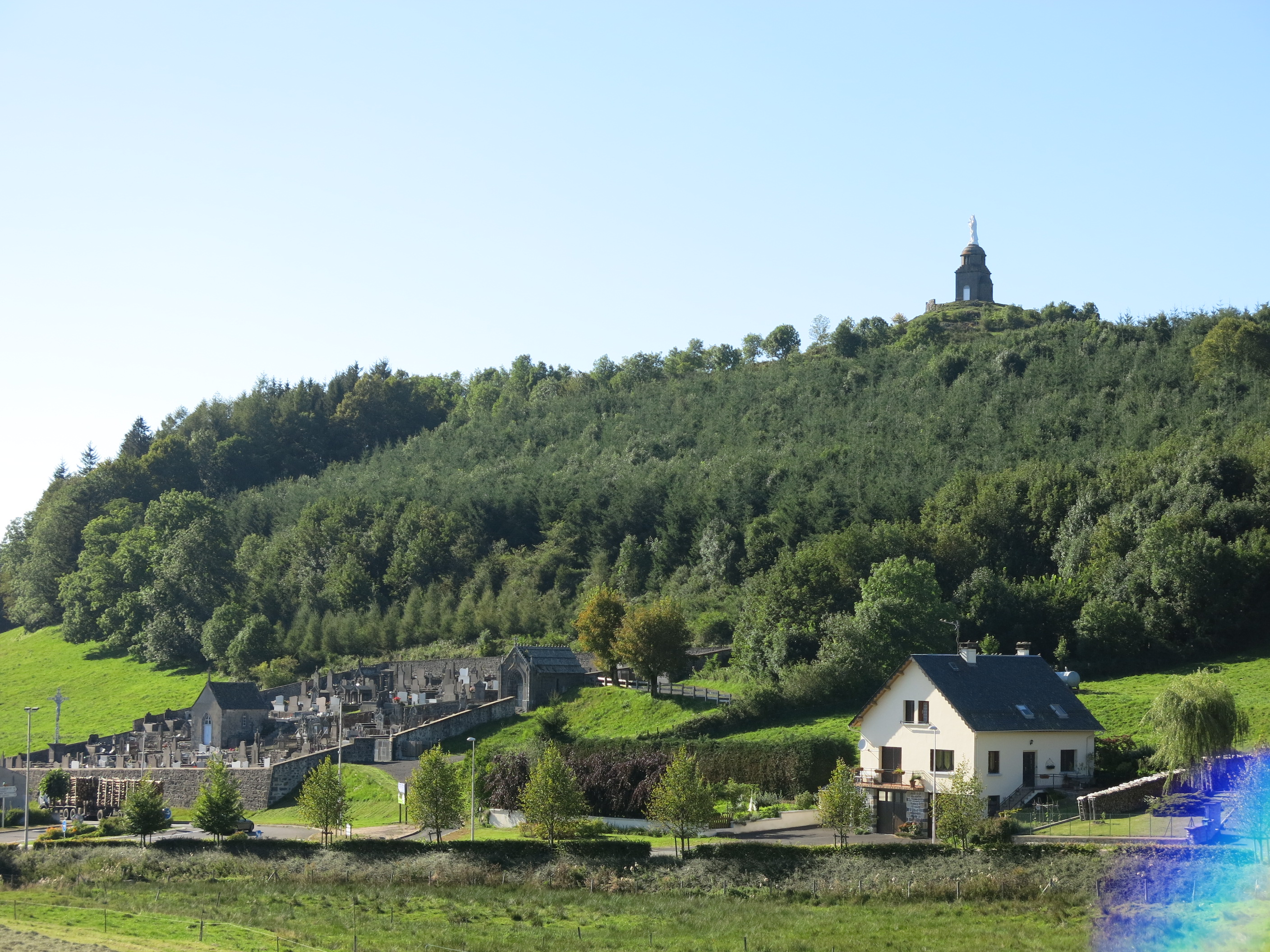 Overview of the hill and the chapel of Notre-Dame de Natzy (Puy-de-Dôme, France).